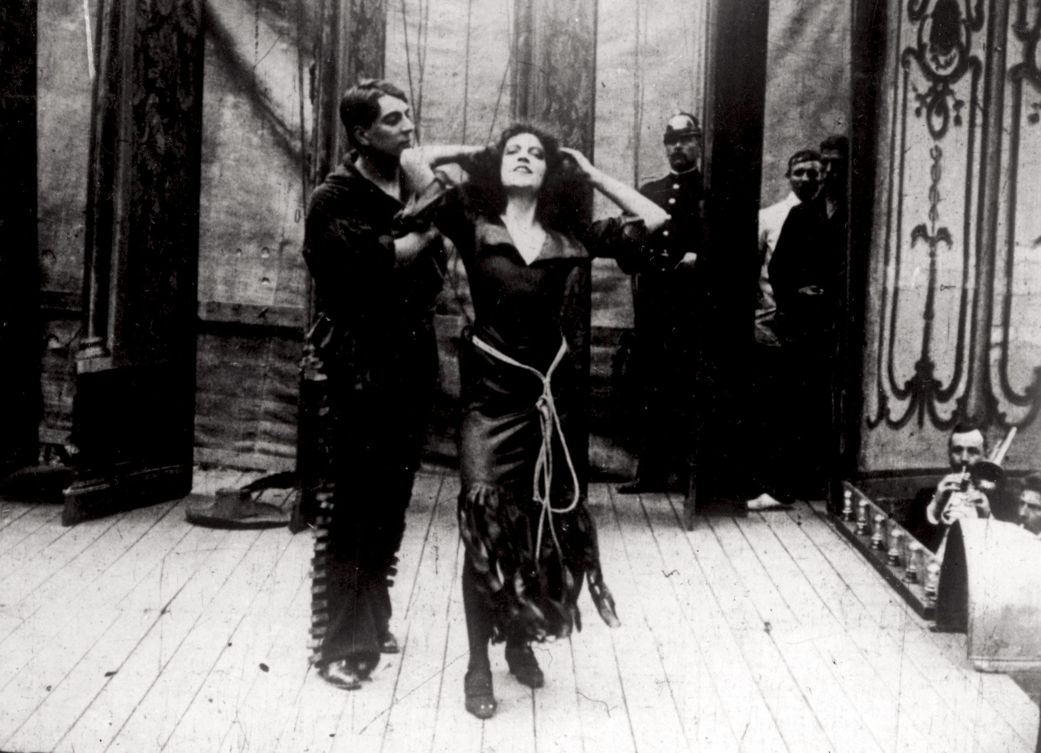 Still from the Danish film Afgrunden.